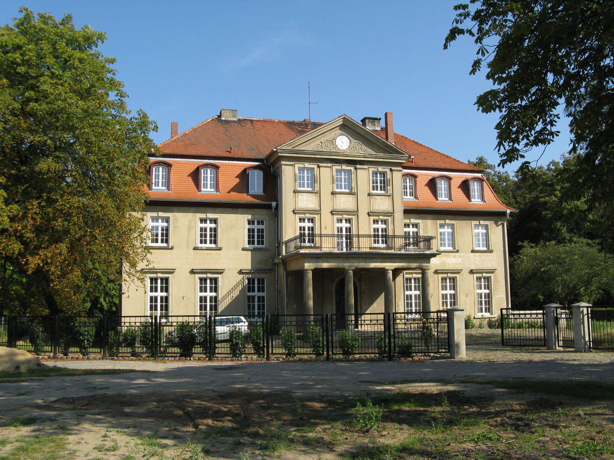 Manor house in Karow, disctrict Rostock, Mecklenburg-Vorpommern, Germany